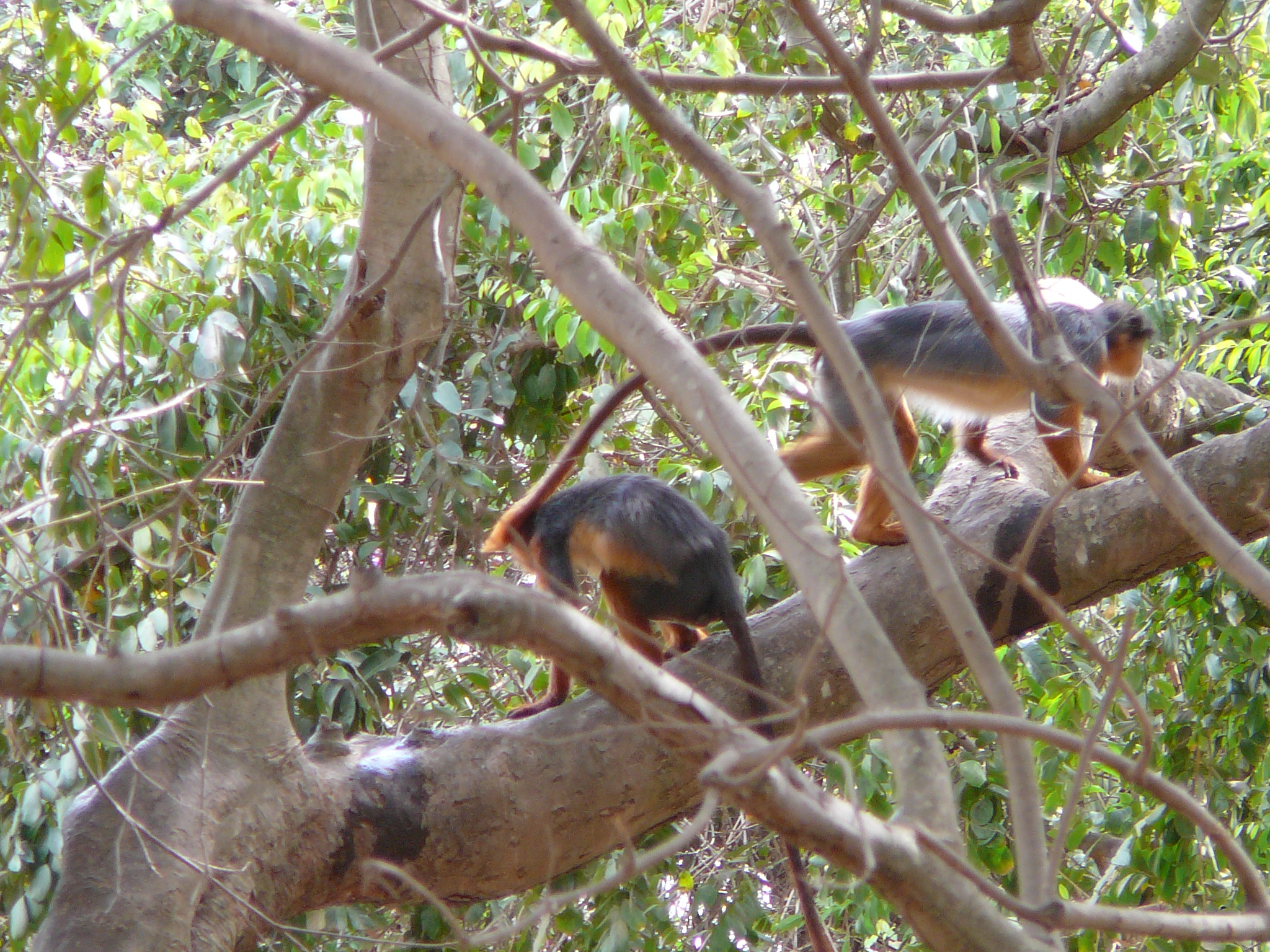 Temminck's red colobus